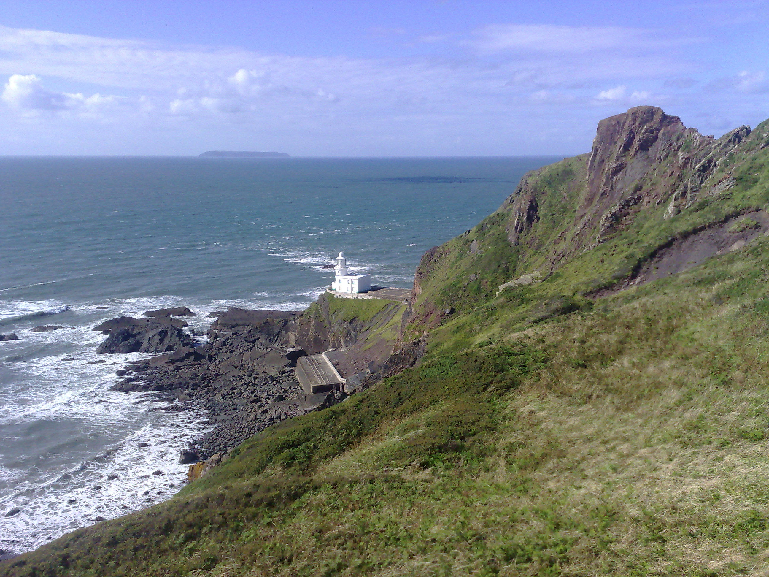 Hartland Point lighthouse, North Devon, England. The island of Lundy is in the distance